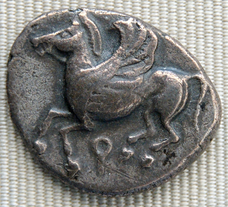 Silver tridrachm from Corinth, ca. 515 BC, obverse: Pegasus flying left, with Greek letter qoppa (ϙ) below.